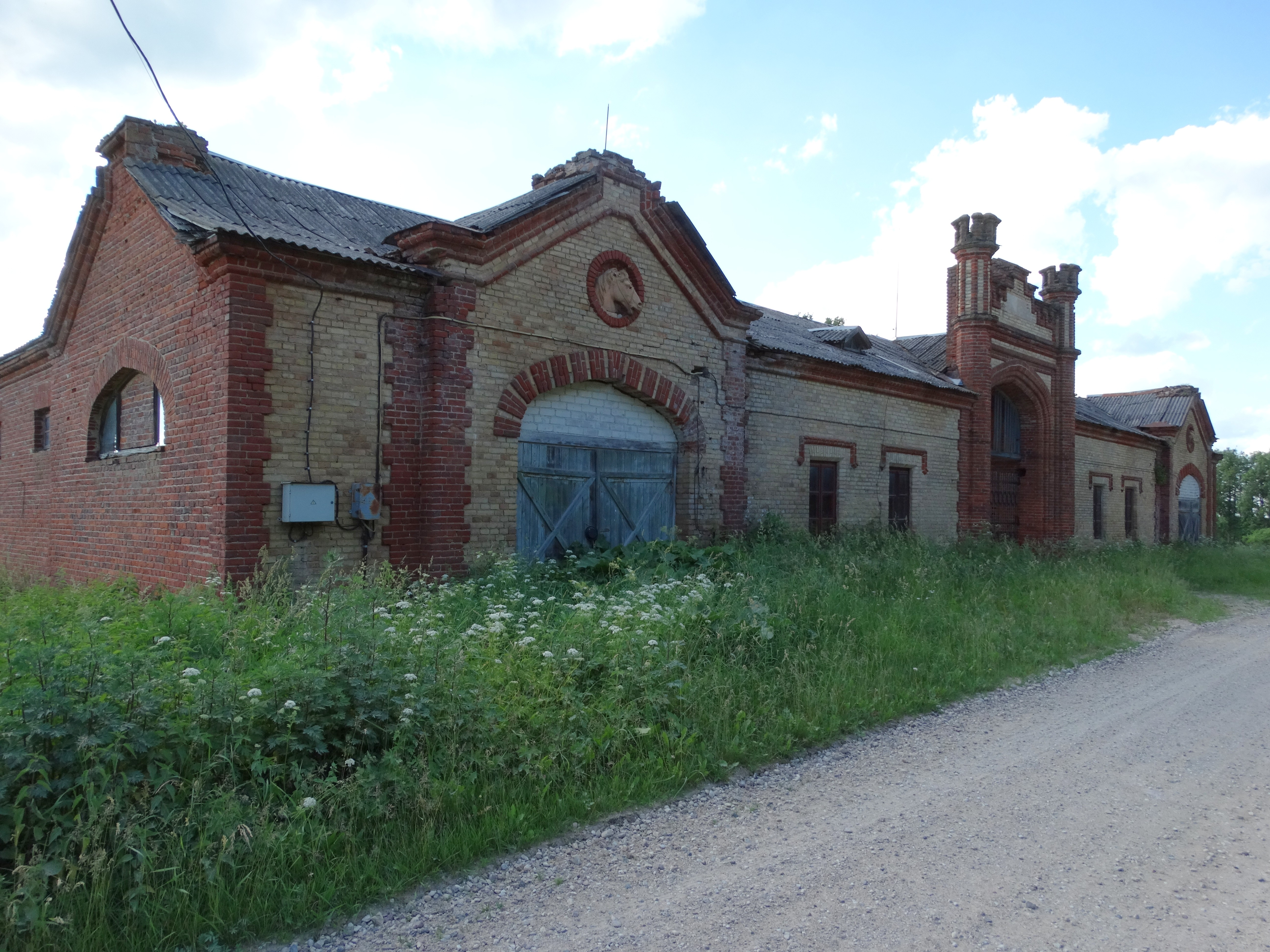 Manor in Lyduokiai, Ukmergė district, Lithuania